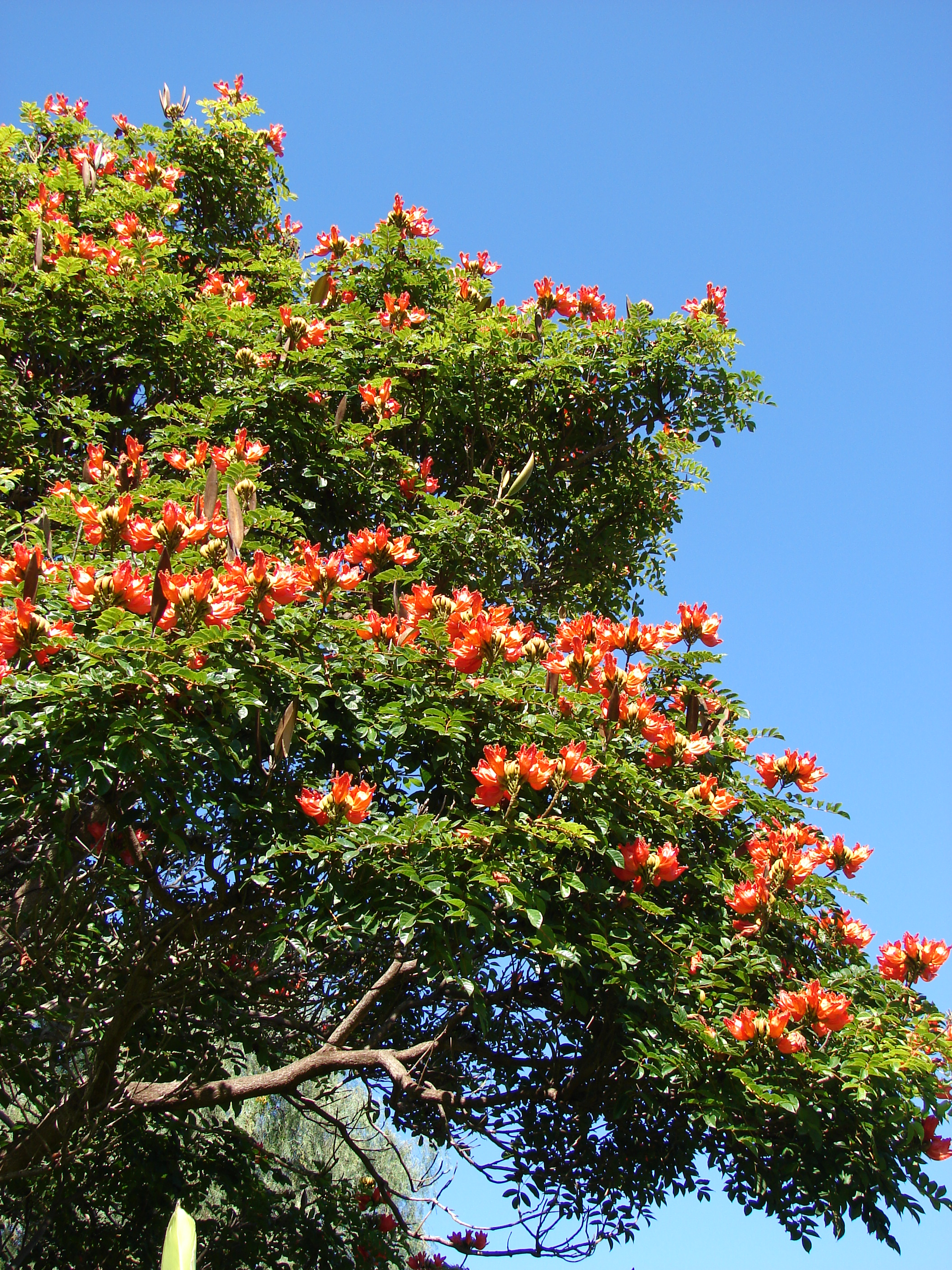 Spathodea campanulata (flowering habit). Location: Maui, Enchanting Floral Gardens of Kula